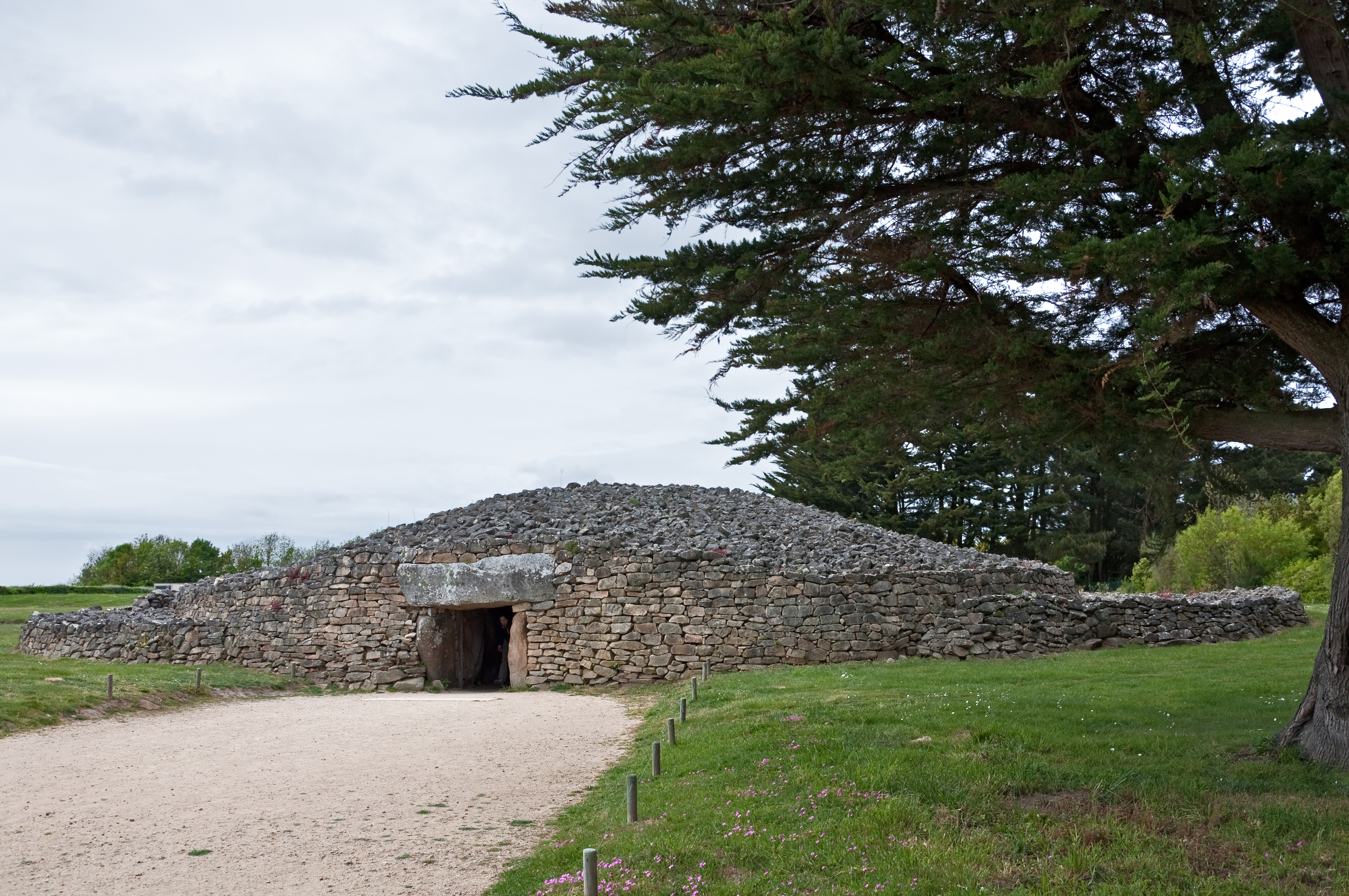 The restored cairn of the dolmen called 'La Table des Marchand' in Locmariaquer (Morbihan, Brittany, France)